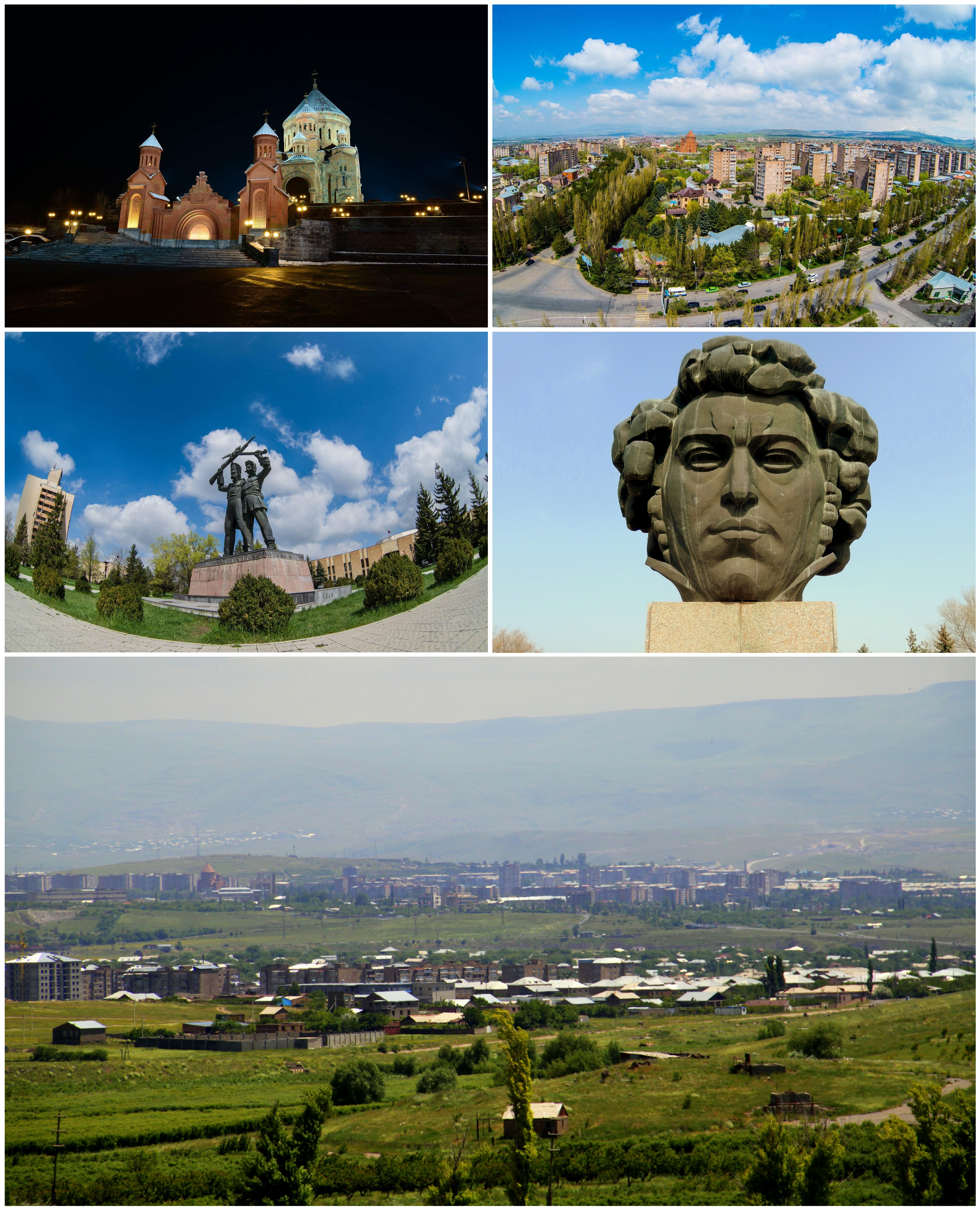 Collection of images of Abovyan, Kotayk, Armenia.